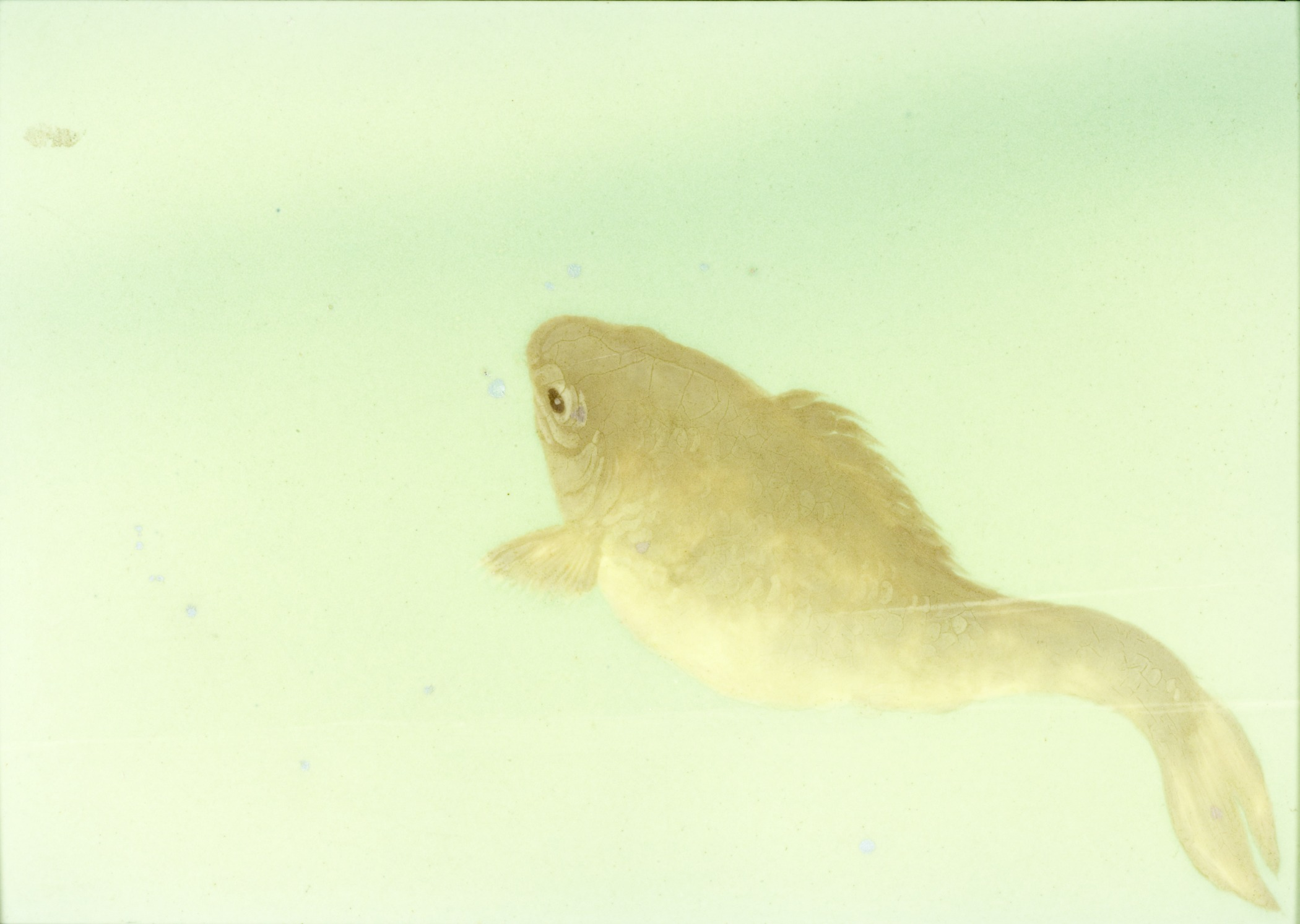 United States, 1900 Furnishings; Accessories Earthenware, paint Framed: 15 1/4 x 19 1/4 in. (38.73 x 48.89 cm); Sight: 13 1/4 x 9 1/4 in. (33.65 x 23.49 cm) Gift of the McInally Family (AC1999.252.3) Decorative Arts and Design Currently on public view: Art of the Americas Building, floor 3